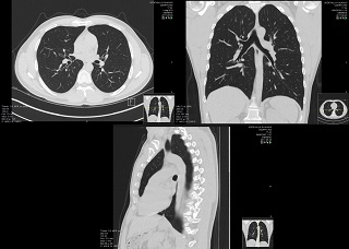 High-resolution computed tomographs of a normal thorax of a 37 year old man who presented with unspecific breathing problems. They are taken in the axial, coronal and sagittal planes, respectively. See: Scrollable high-resolution computed tomography images of a normal thorax